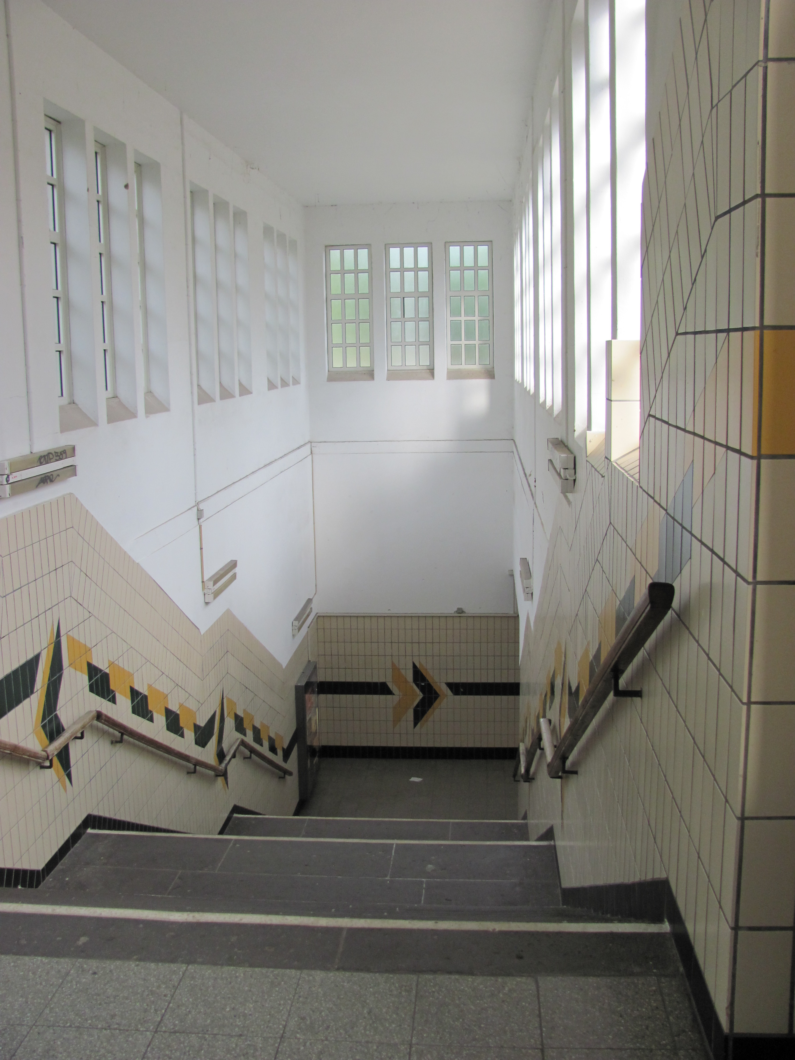 U-Bahn station Buchenkamp in Hamburg, Germany